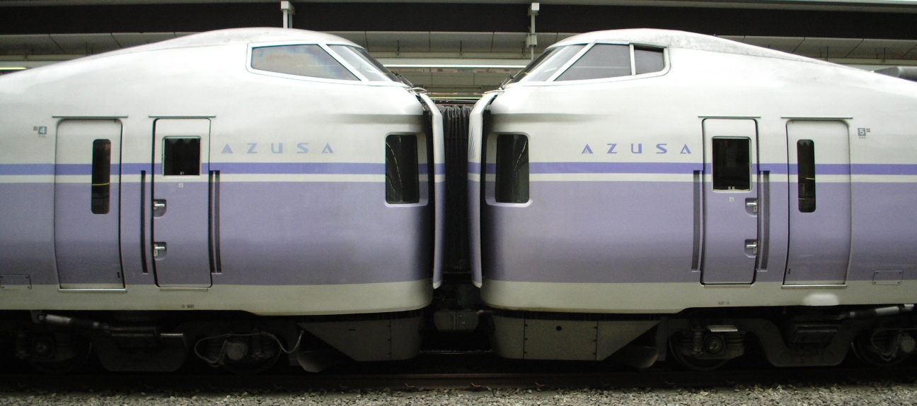 Coupling of JR East E351 (at Shinjuku Station)